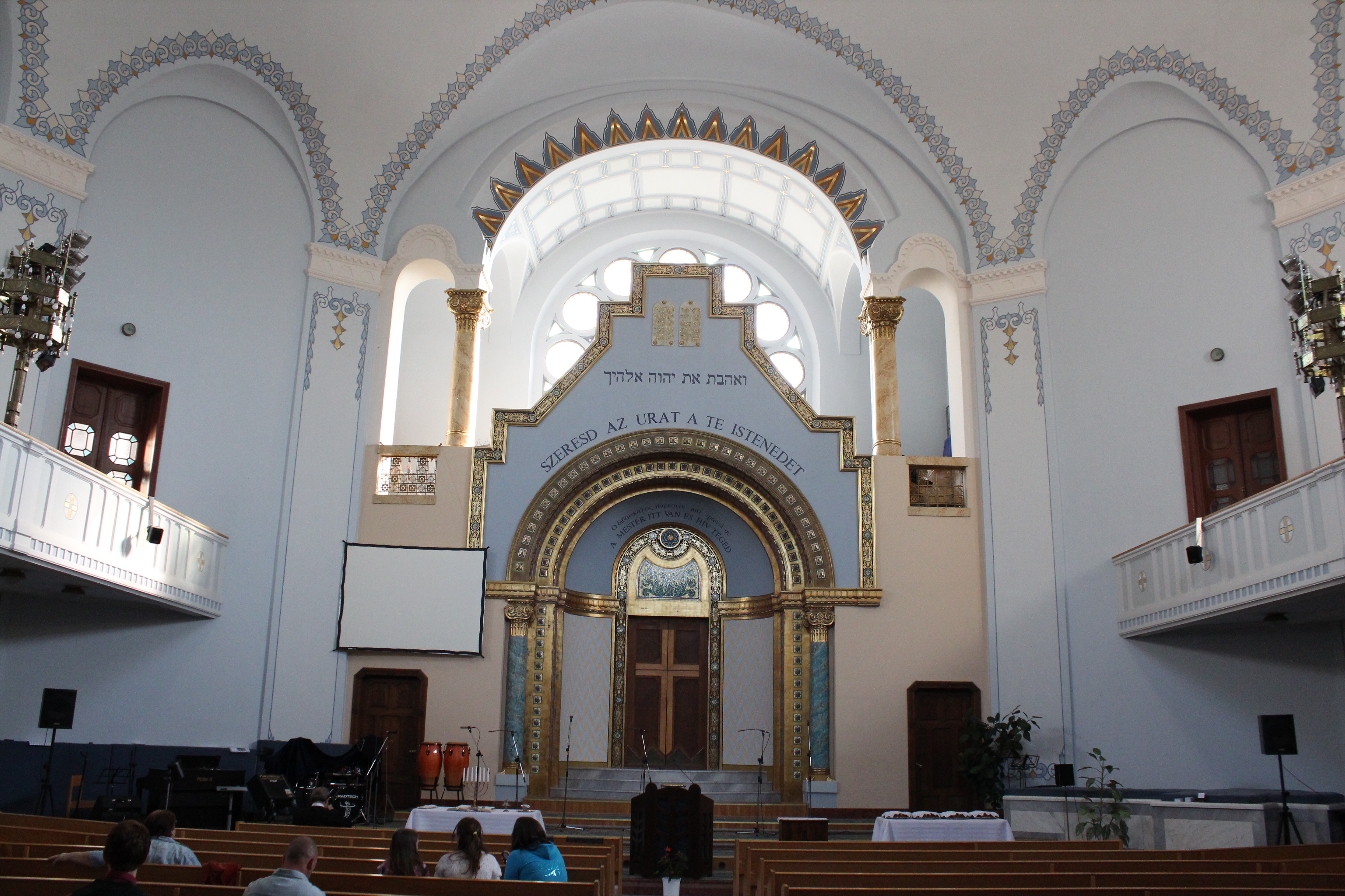 Everyone's church (former synagogue) in Román street, Budapest District X